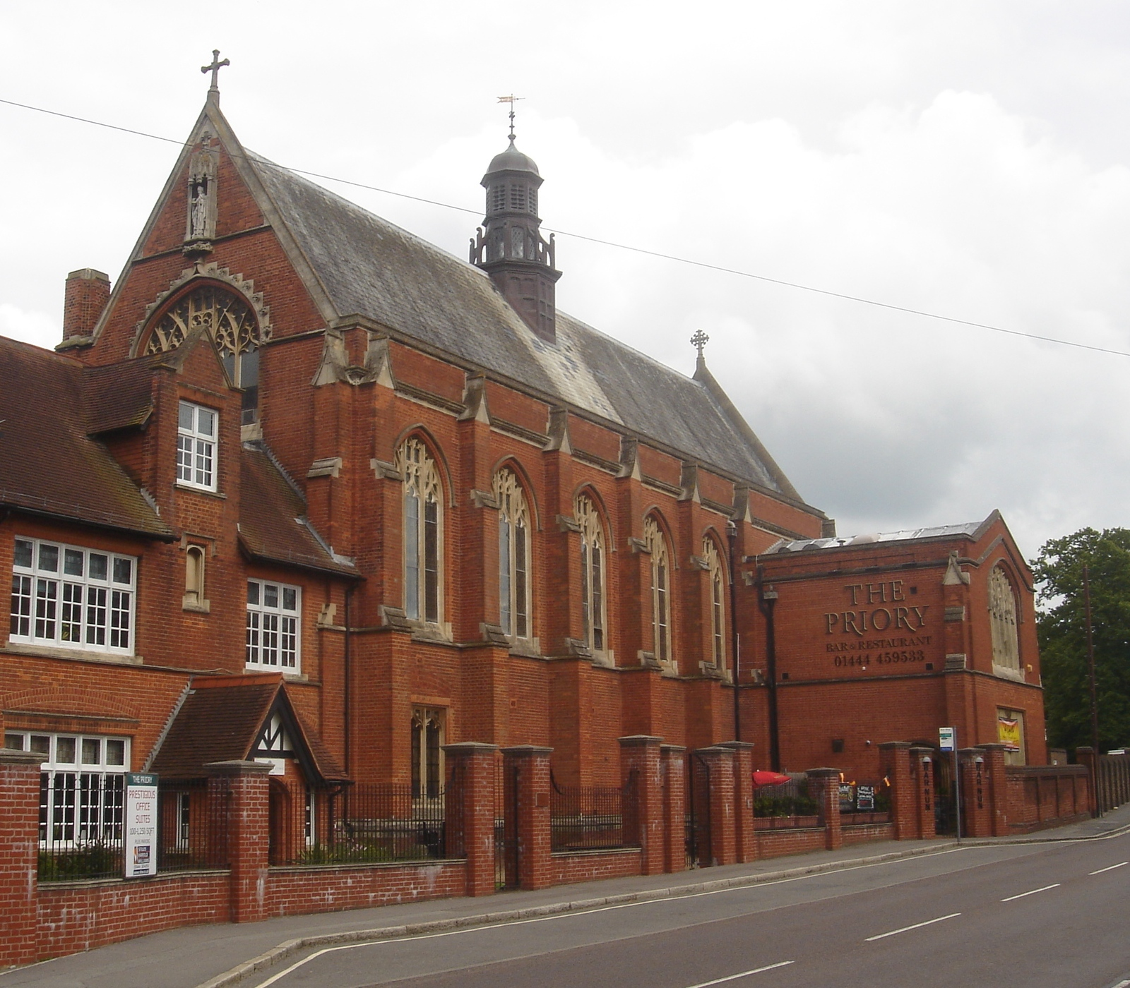 Former Priory of Our Lady of Good Counsel, Haywards Heath, District of Mid Sussex, West Sussex, England. Built 1887-88 for a community of nuns from Bruges, this building was also Haywards Heath's first Roman Catholic church. A separate church (St Paul's) was established nearby in 1930, the nuns moved to Sayers Common in 1978 and the building has been converted into a restaurant, offices and conference facilities.